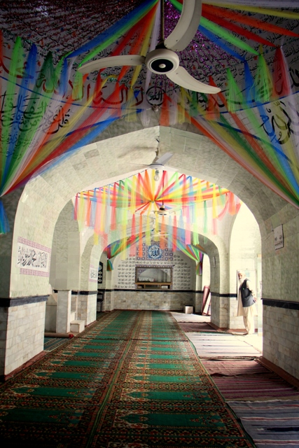 Neevin Masjid This is a photo of a monument in Pakistan identified as the PB-103-A